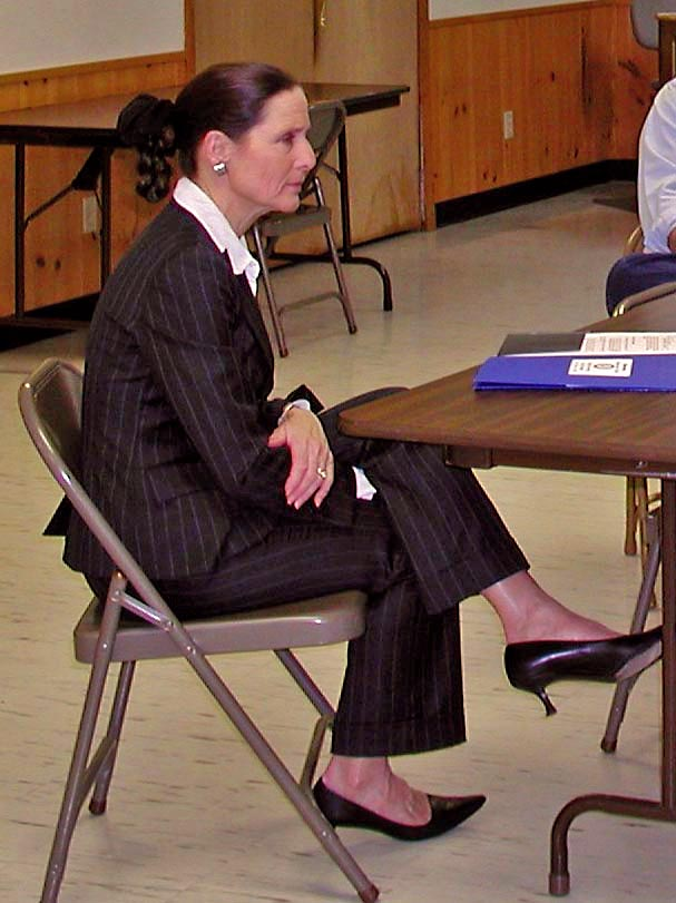 U.S. Rep. Jean Schmidt wearing a pantsuit